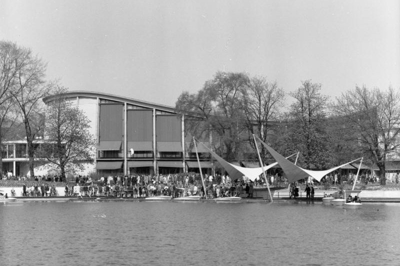 Title: Karlsruhe, Bundesgartenschau, Schwarzwaldhalle Factual corrections and alternative descriptions are encouraged separately from the original description. Additionally errors can be reported at this page to inform the Bundesarchiv. Original historic description: Bundesgartenschau 67 Karlsruhe (See mit Schwarzwaldhalle)